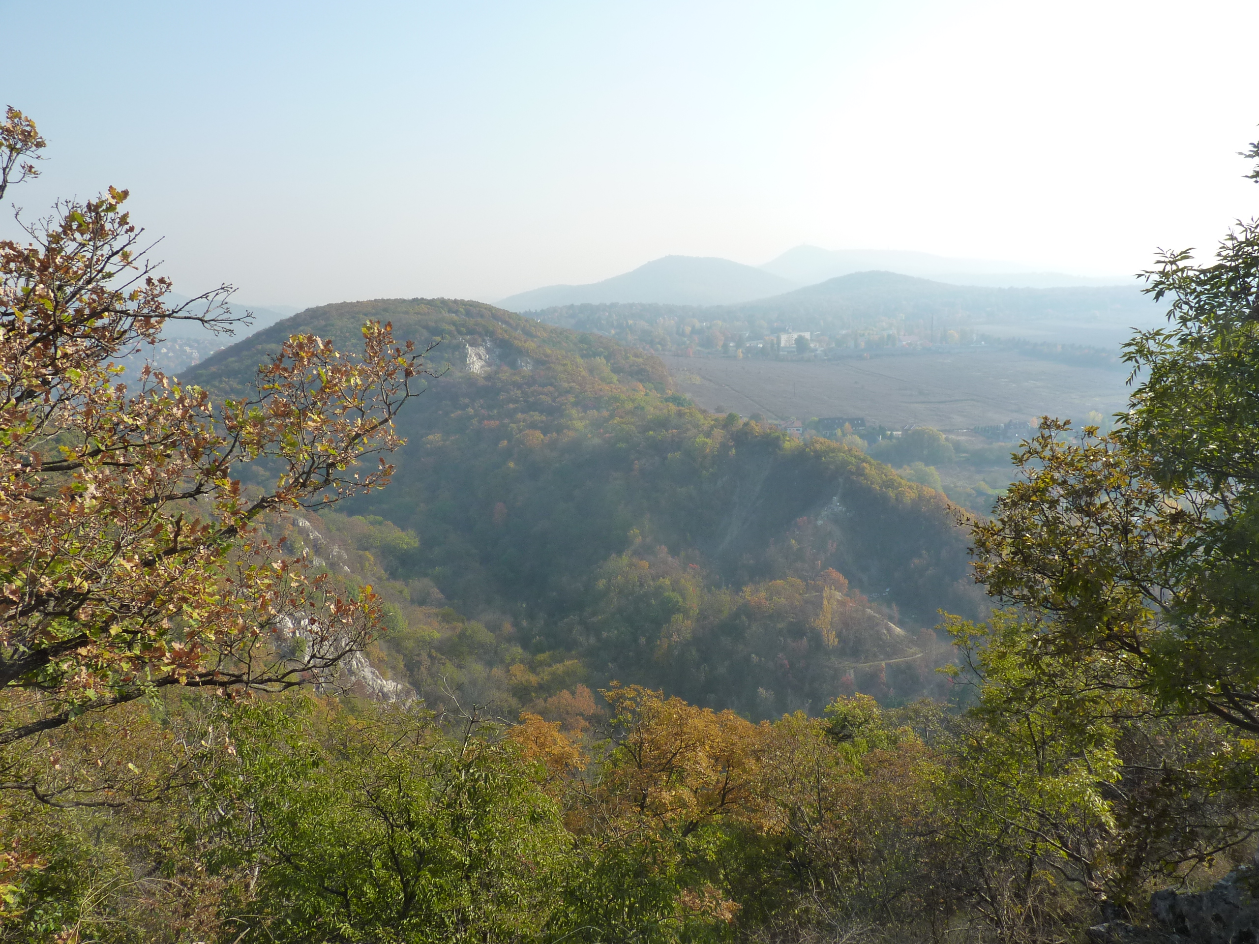 View from Remete Hill